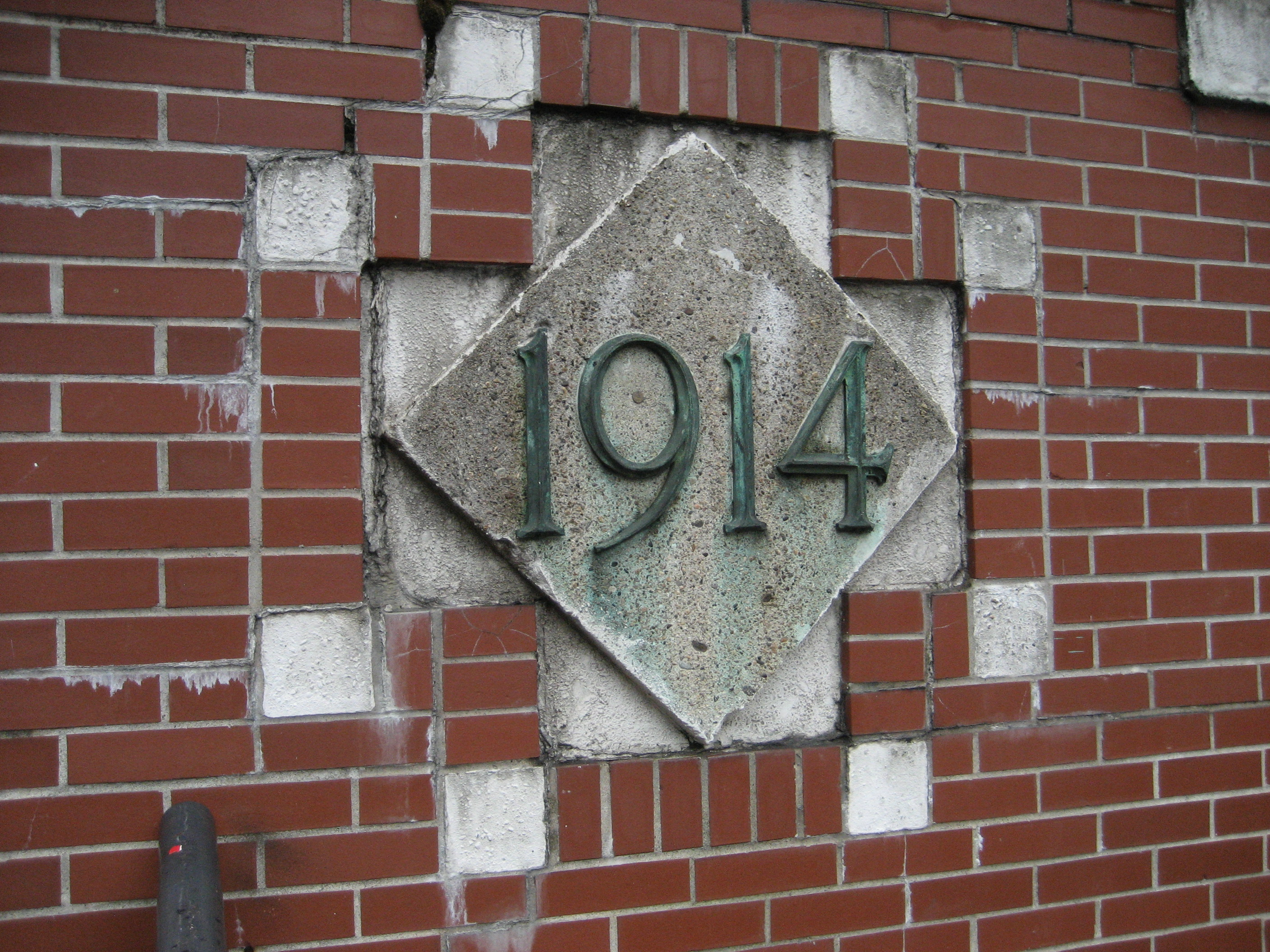 Providence, Rhode Island. 1914 date on tunnel structure.